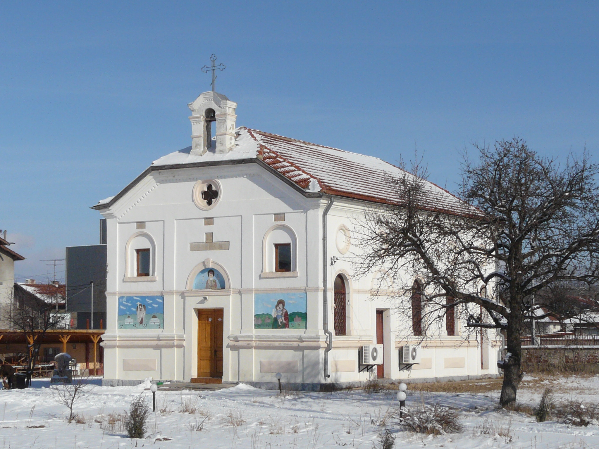 Saint Nicholas of Myra church, Vrazhdebna, Sofia, Bulgaria